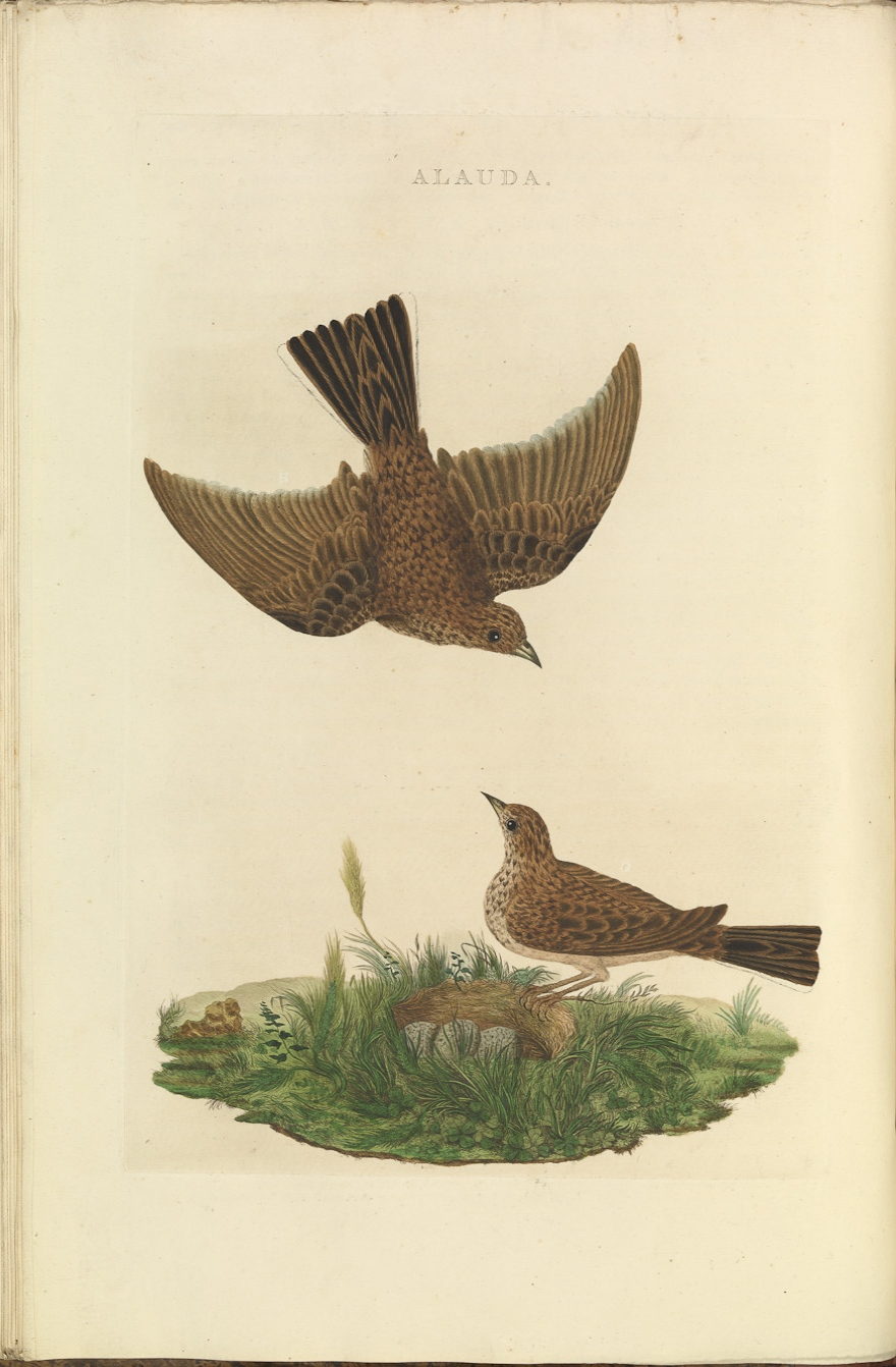 Plate 15 from the Nederlandsche vogelen by Nozeman and Sepp.